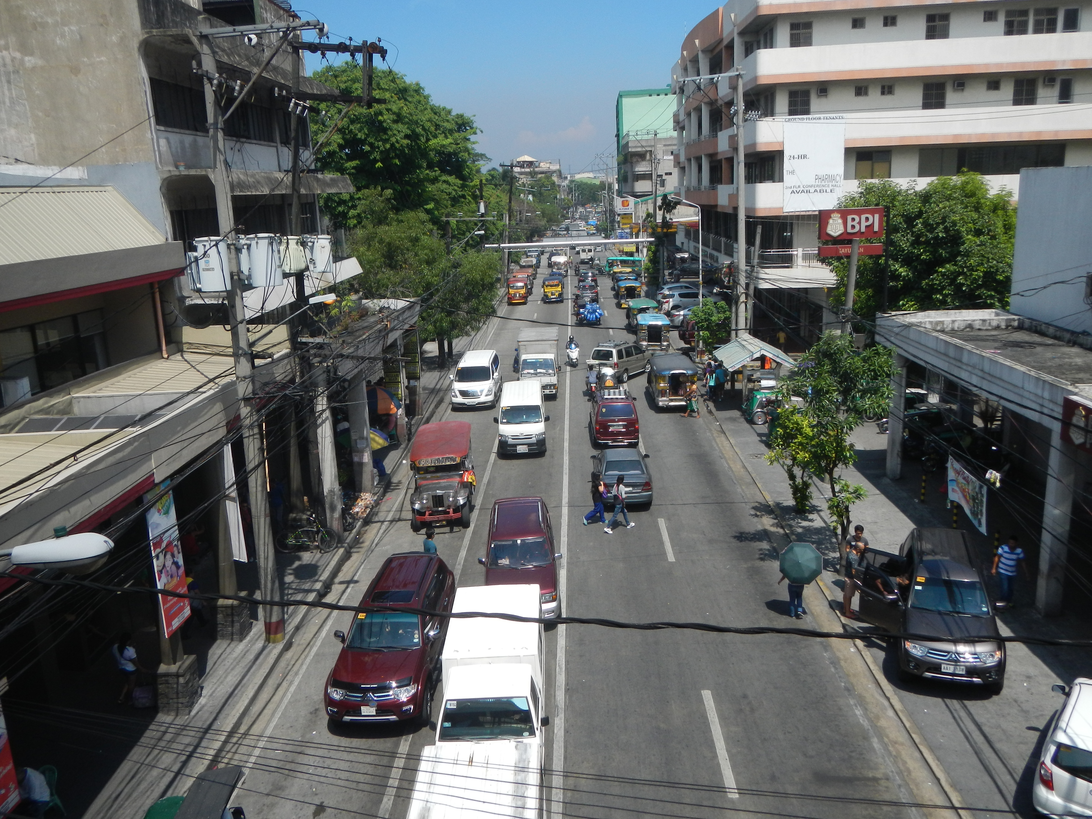 Tayuman Street A. Villarama Avenue, DOH Compound, Department of Health (Philippines), Rizal Avenue, Santa Cruz, Manila.